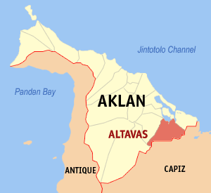 Map of Aklan showing the location of Altavas